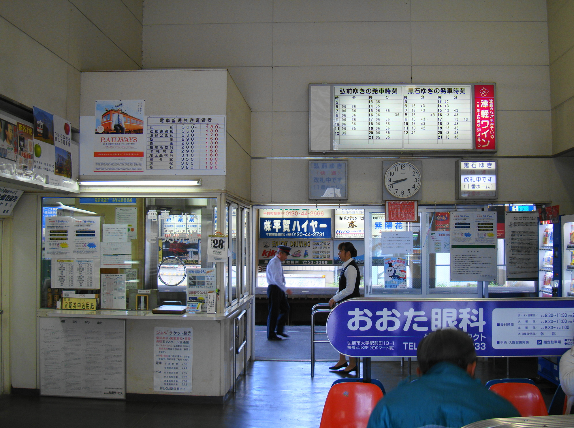 Hiraka Station